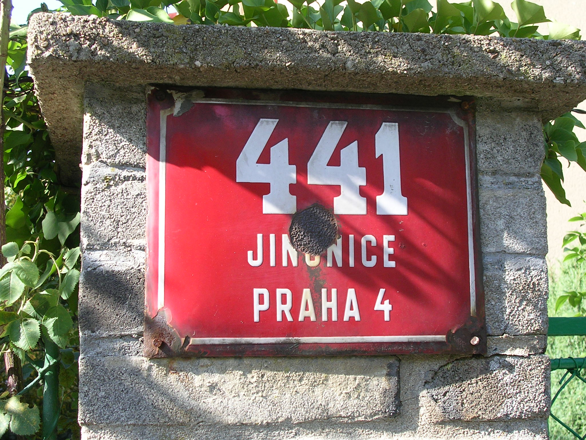 Jinonice, Prague, the Czech Republic. A house number.